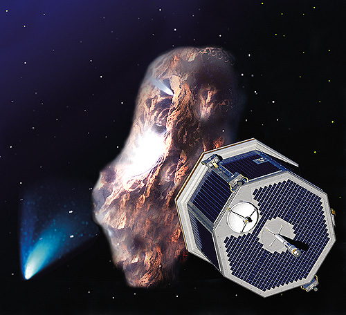 Artists rendering of the Comet Nucleus Tour (CONTOUR) spacecraft which is presumed lost after numerous attempts at contact.